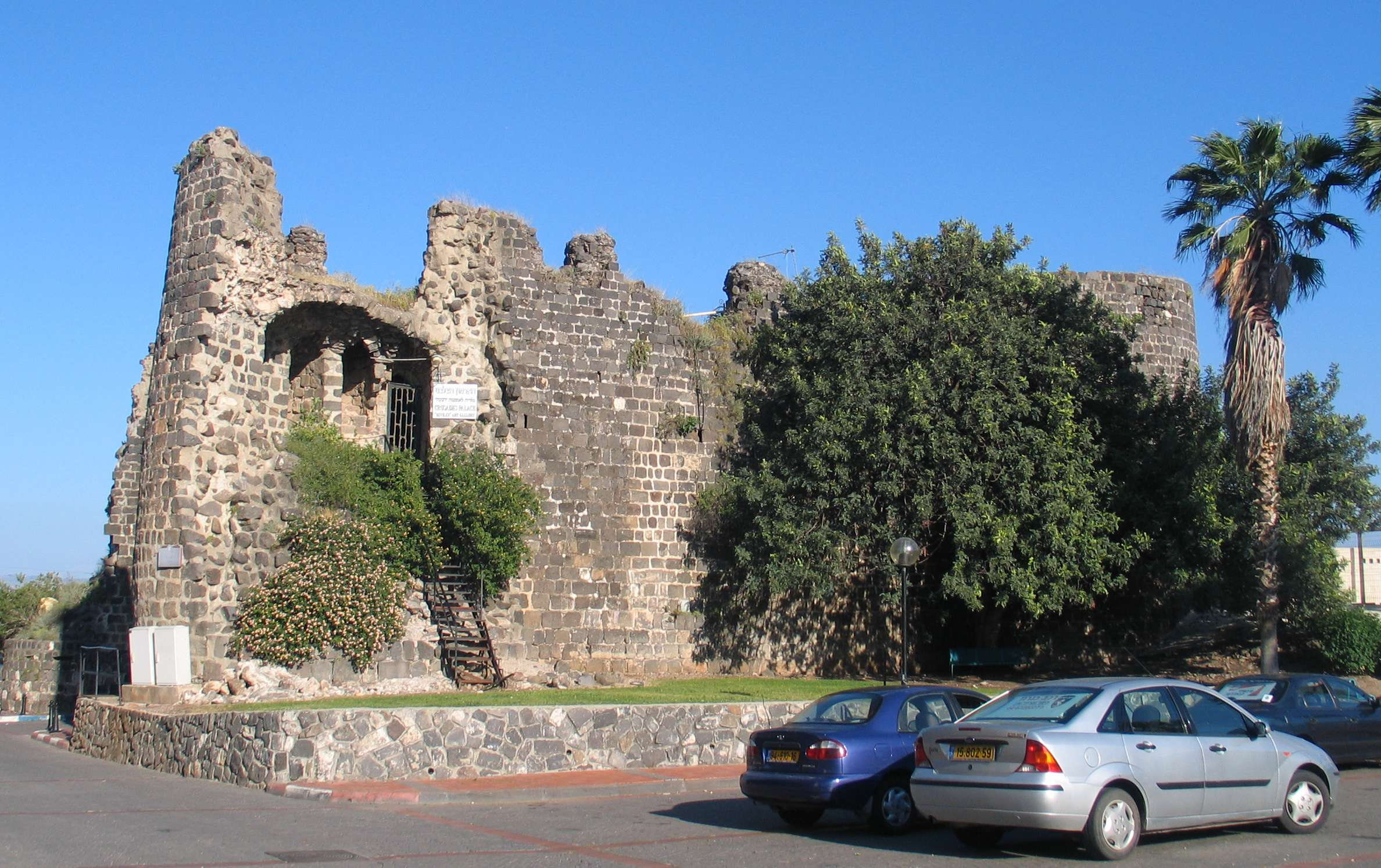 Tiberias, Israel - Citadel.